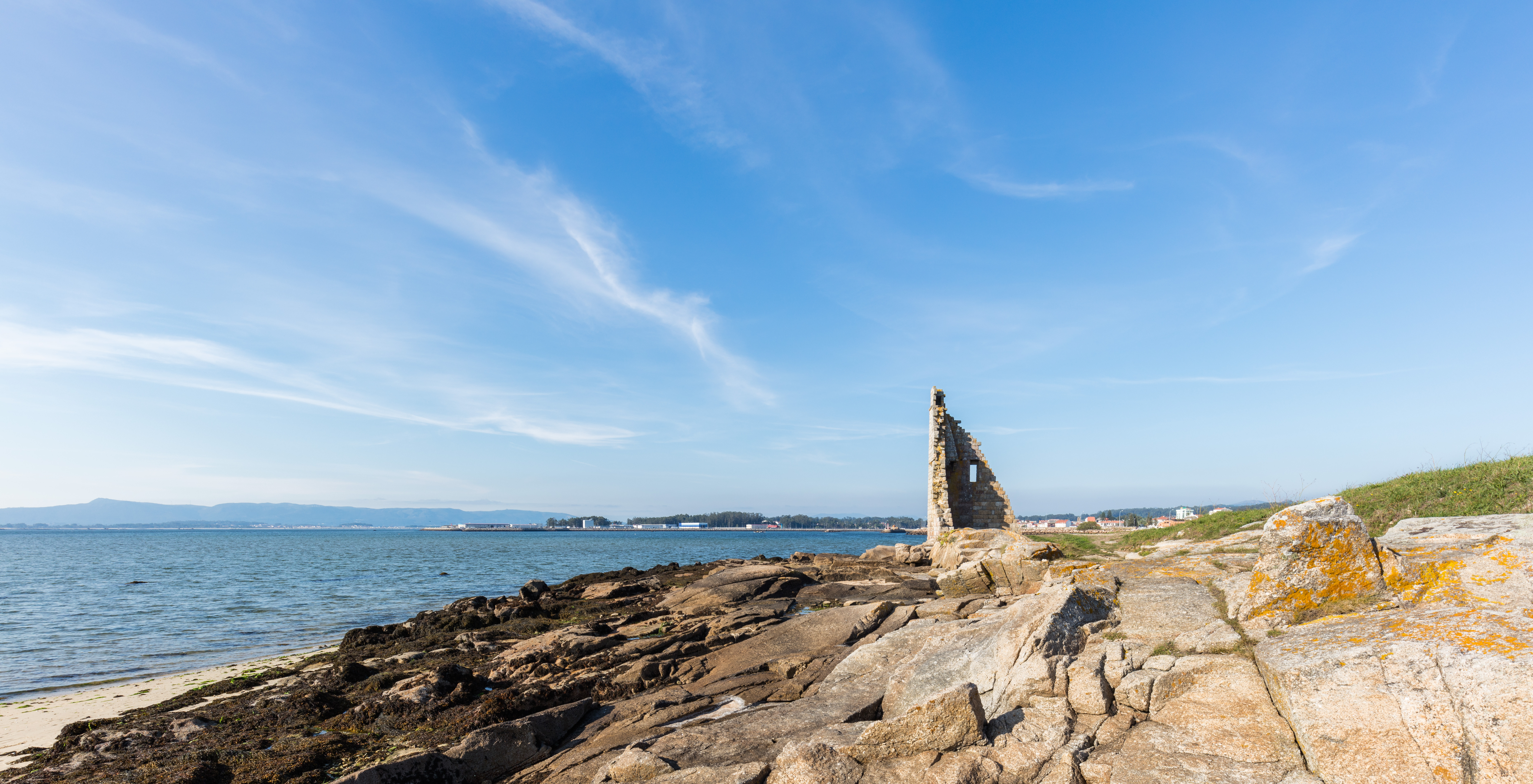 View of the coastal tower of San Saturniño, Cambados, province of Pontevedra, Galicia, Spain. The remains of the fortification are probably part of the first settlement in the area of Cambados. The fortification, a state monument of Spain, dates from the second half of the 10th century and was destructed betweeen 1466 and 1470 during the Irmandiño revolts. The fortification had several functions: residence, watching tower and lighthouse.